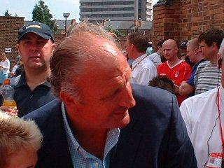 Photo of Paul Hart at Nottingham Forest taken in 2002. Taken with permission from